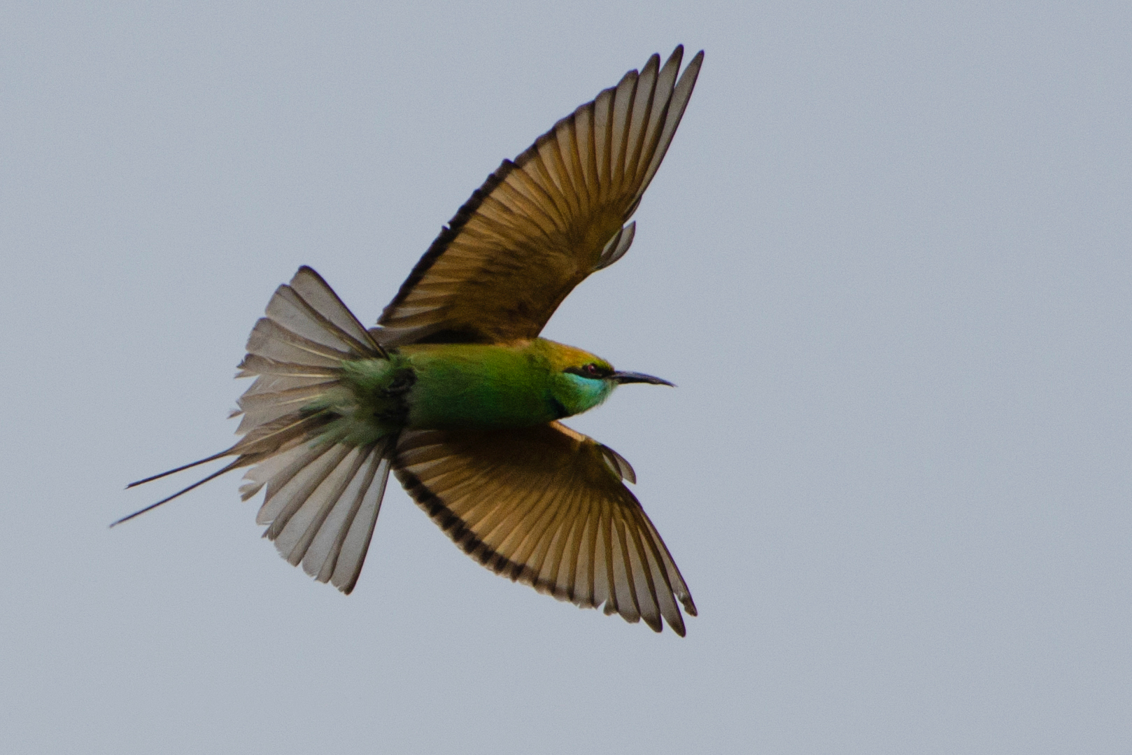 Green Bee-eater clicked at Nagpur, India, by Dr. Tejinder Singh Rawal